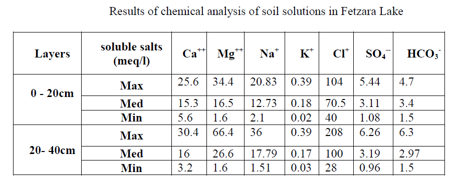 Results of chemical analysis of soil solutions in Fetzara Lake